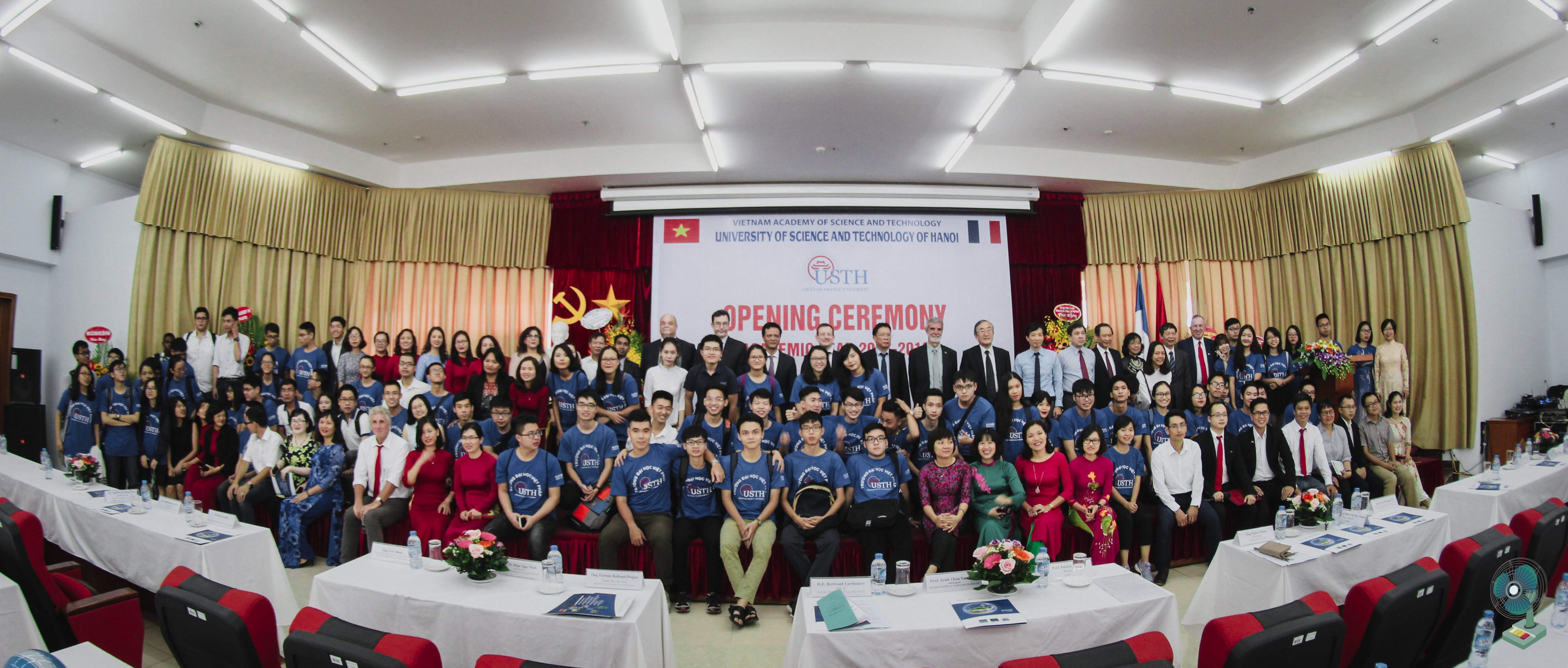 USTH